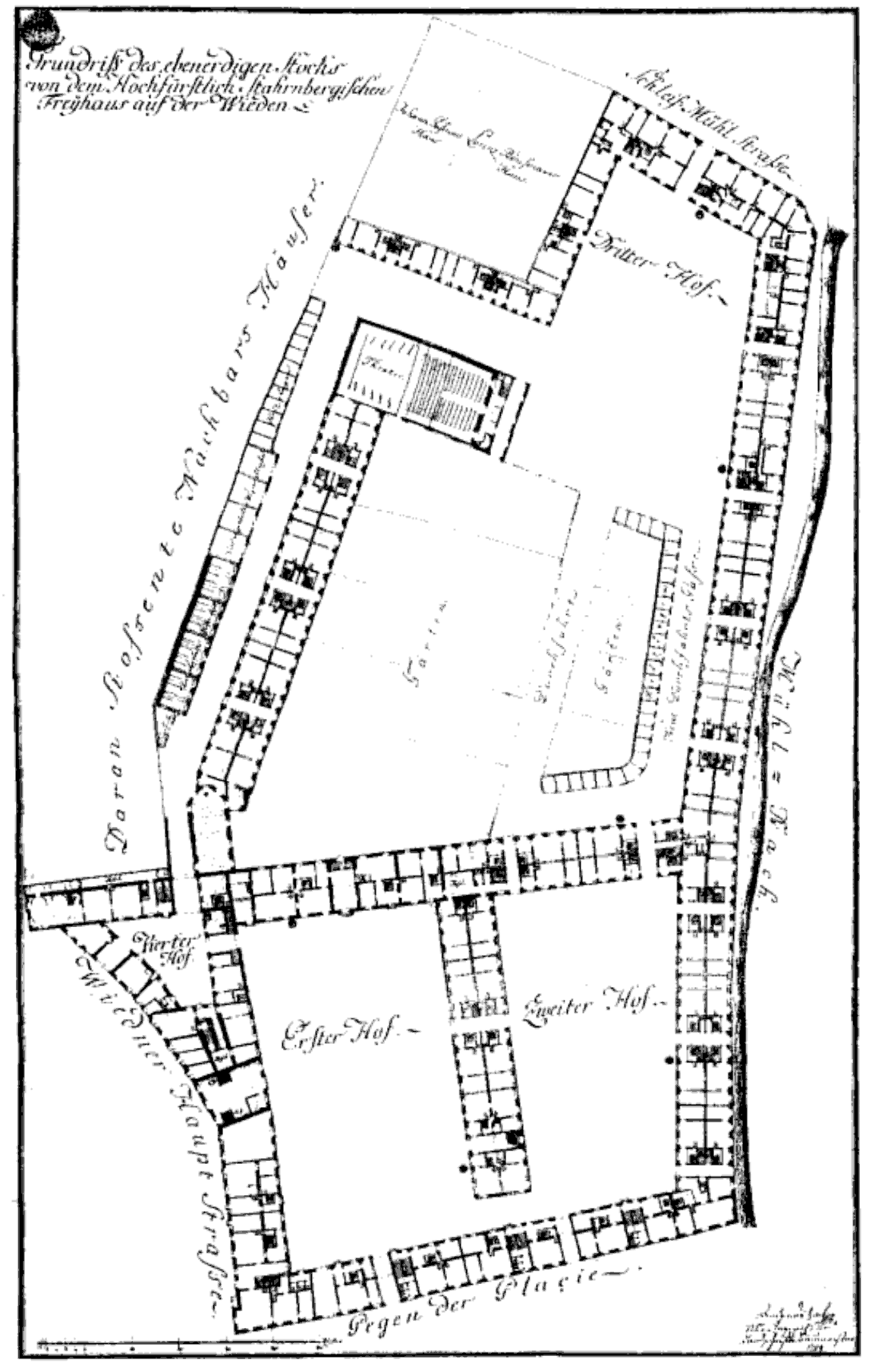 Floorplan of the ground floor of the Freihaus, a complex of apartments and businesses in Vienna. The complex also included the Theater auf der Wieden, site of the premiere of Mozart's opera "The Magic Flute". The complex is shown as it existed in the late 18th century. From the State Archives of Lower Austria in St. Poelten.